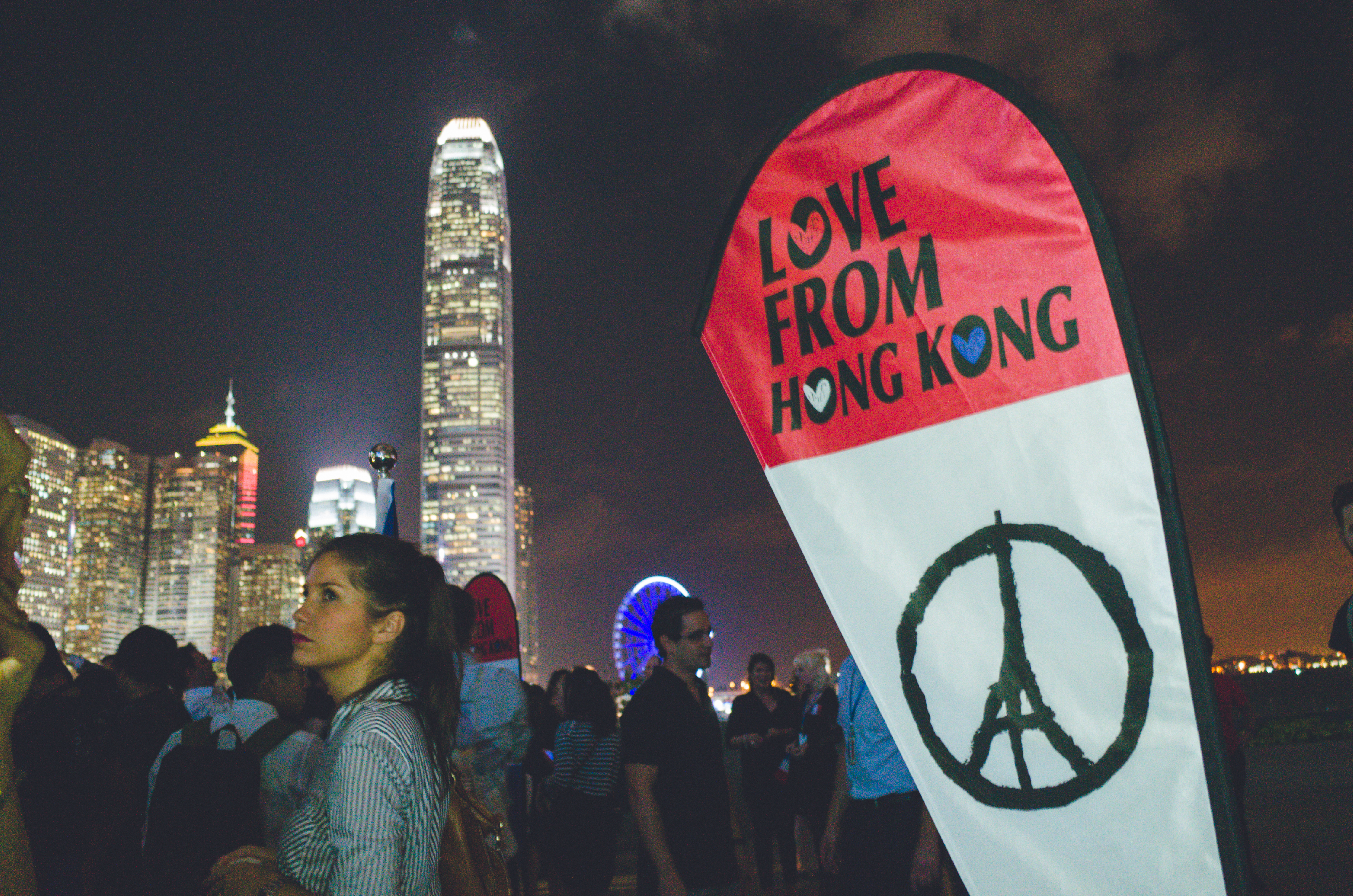 Pray for Paris, Hong Kong 16 November 2015.